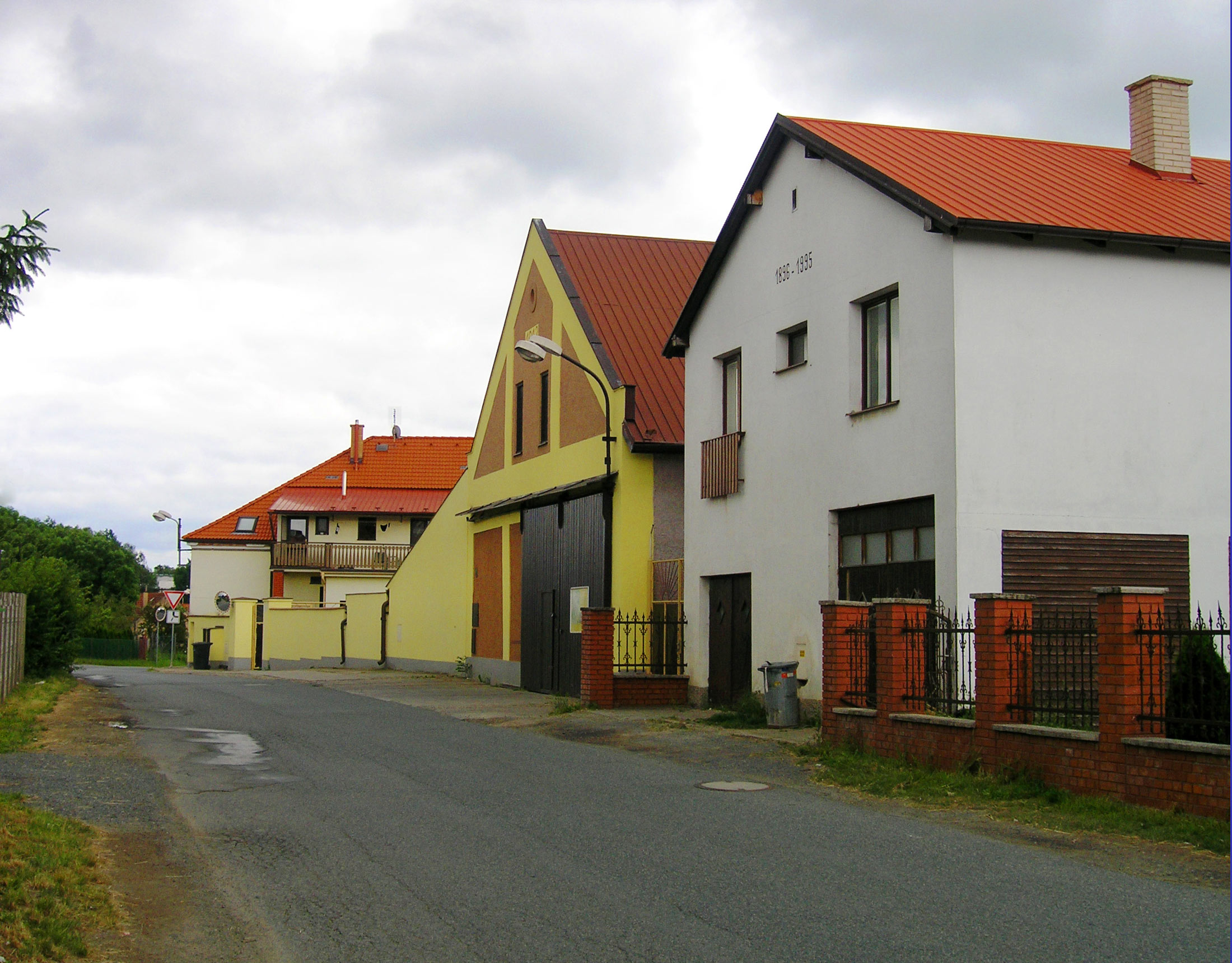 Farm in north part of Modletice, Czech Republic